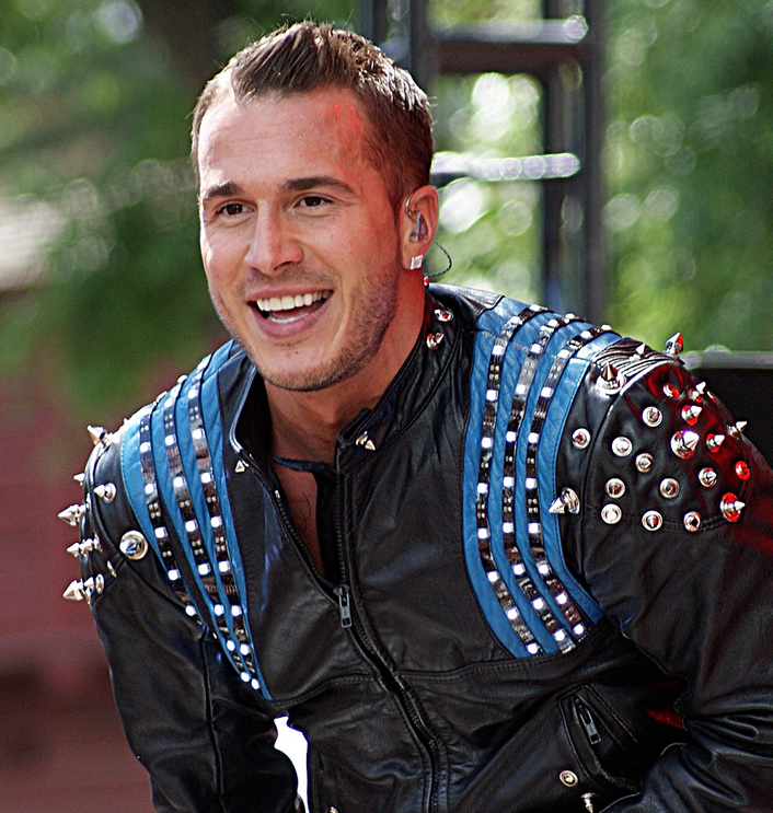 Shawn Desman performing at the Calgary Stampede on the Coca-Cola Stage in Calgary, Alberta, Canada.